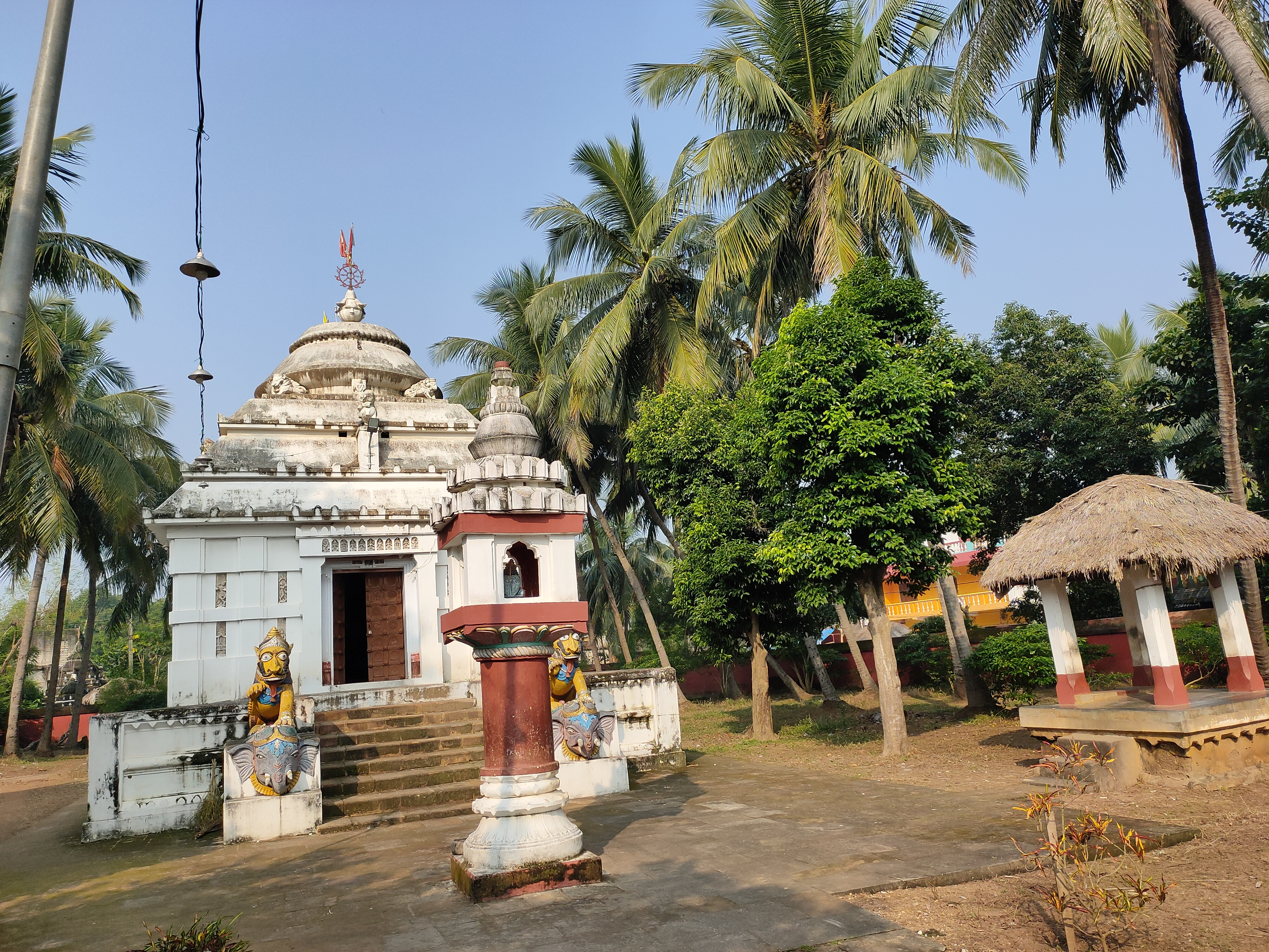 Mahimamani Temple